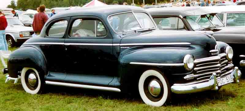 Plymouth Special De Luxe Coupé 1948